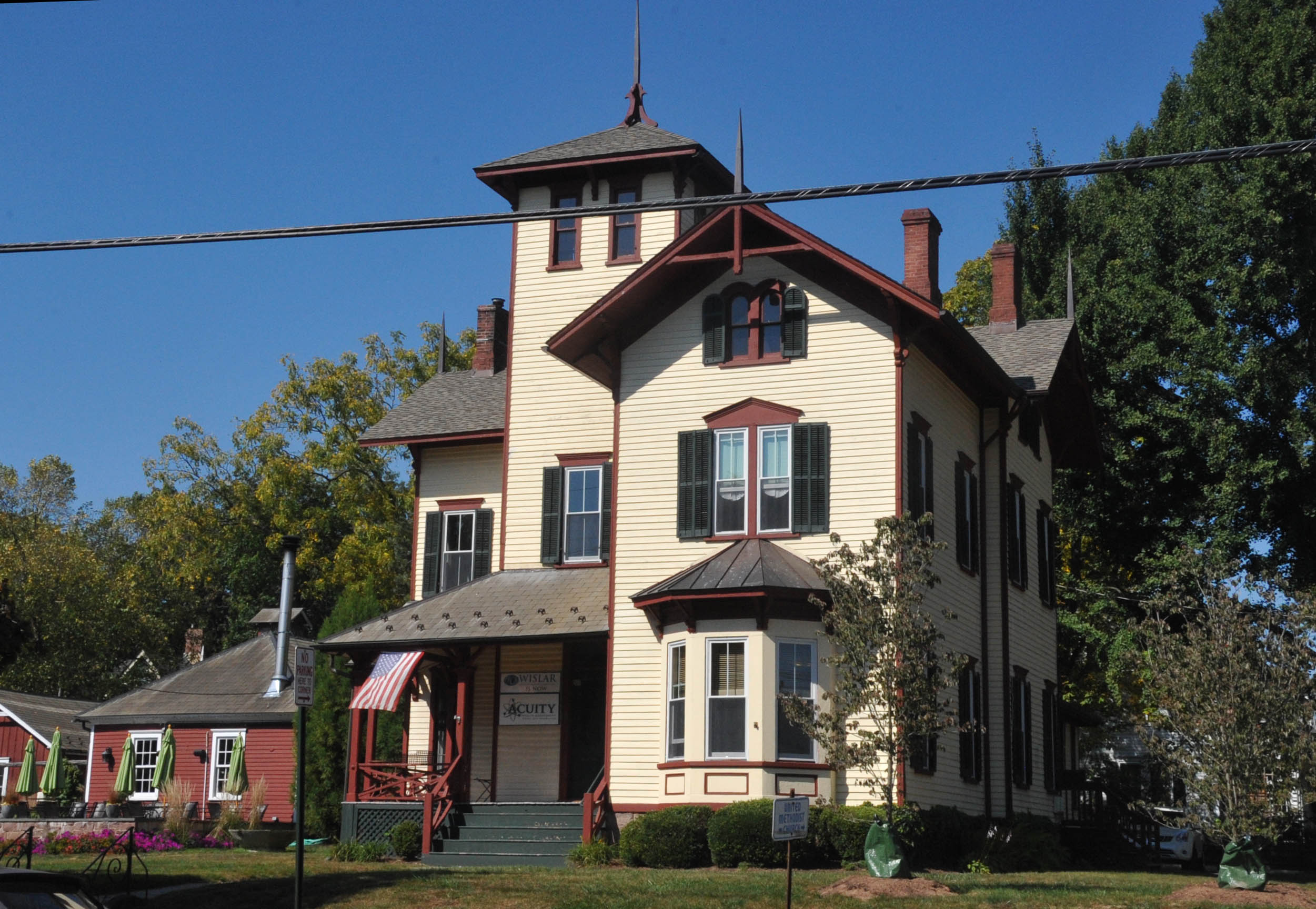 THIS HOUSE STANDS OUT PROMINENTLY AS YOU RIDE THROUGH HOPEWELL AND IS NOW OCCUPIED BY SEVERAL BUSINESSES